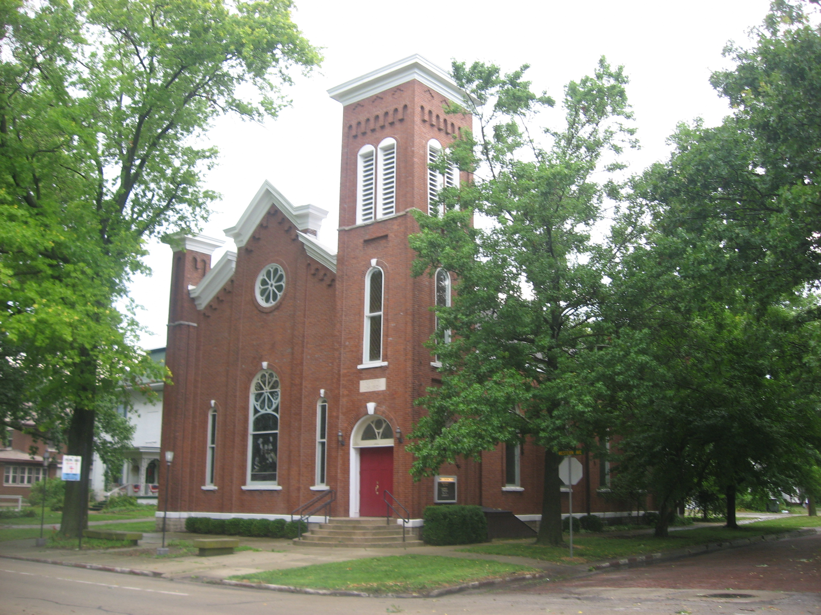 Front of Unity Church, located at 2200 Western Avenue in Mattoon, Illinois, United States. Built in 1872, it is listed on the National Register of Historic Places.